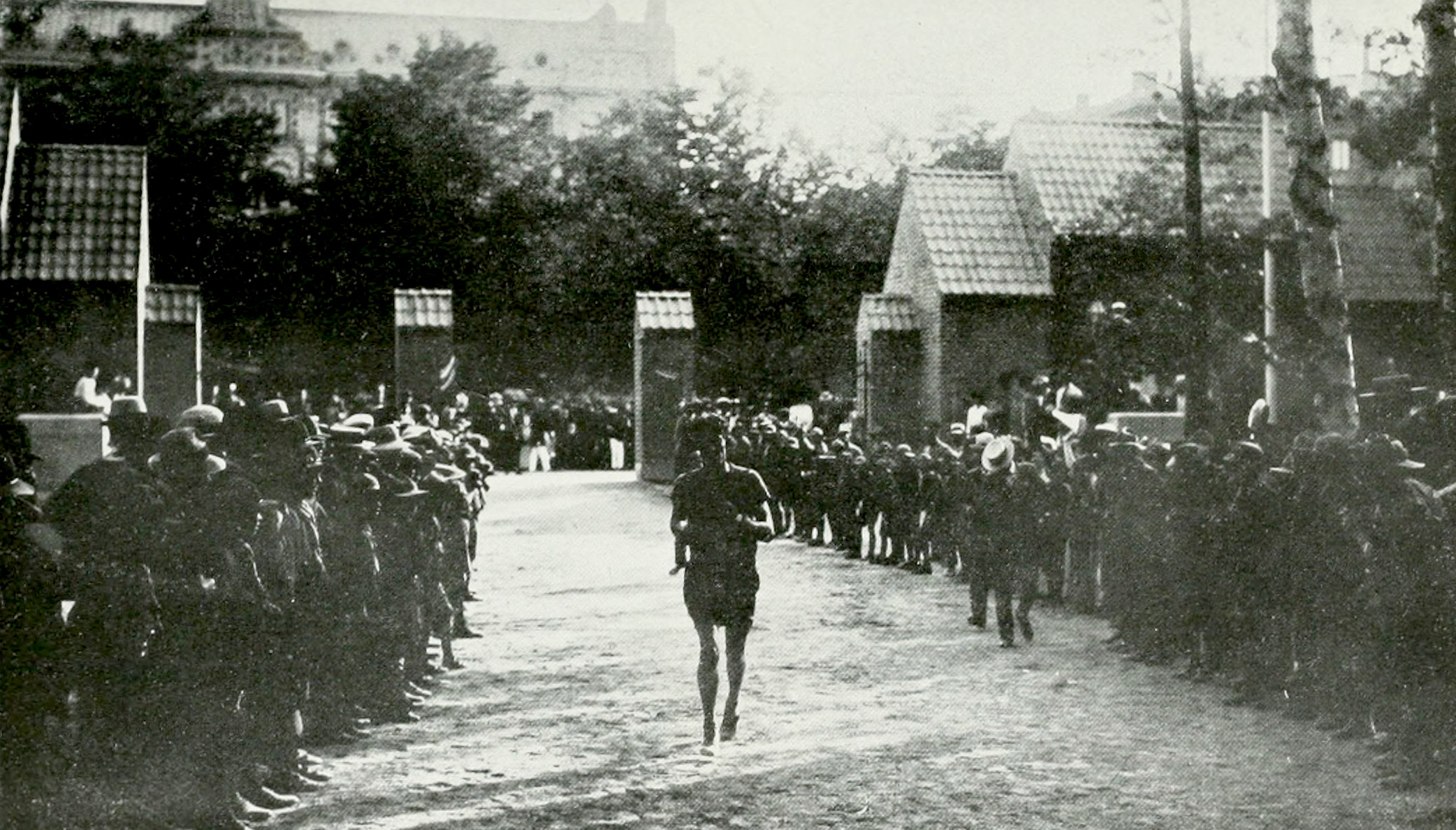 Kenneth McArthur at the entrance of the stadium during the Marathon at the 1912 Summer Olympics.